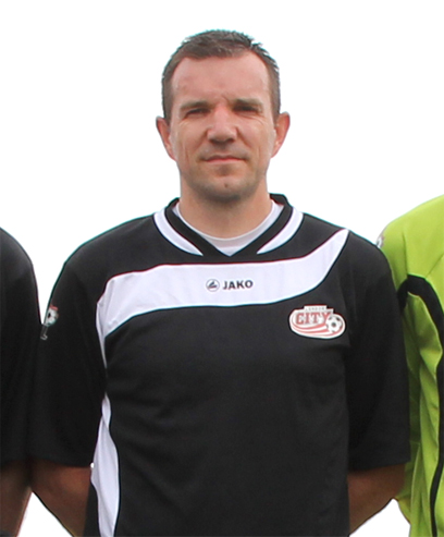 Ranko Golijanin of London City Soccer Club.